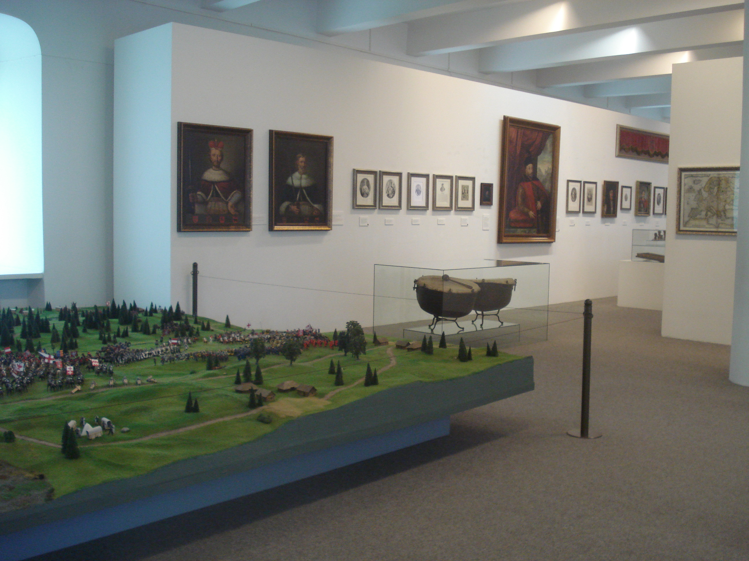 In 1855, upon the initiative of the Vilnius Commission of Archaeology, the first public Lithuanian museum – the Museum of Antiquities – was founded. The National Museum of Lithuania has been continuing the traditions of this museum. The following exposition presents the history of the Museum of Antiquities.